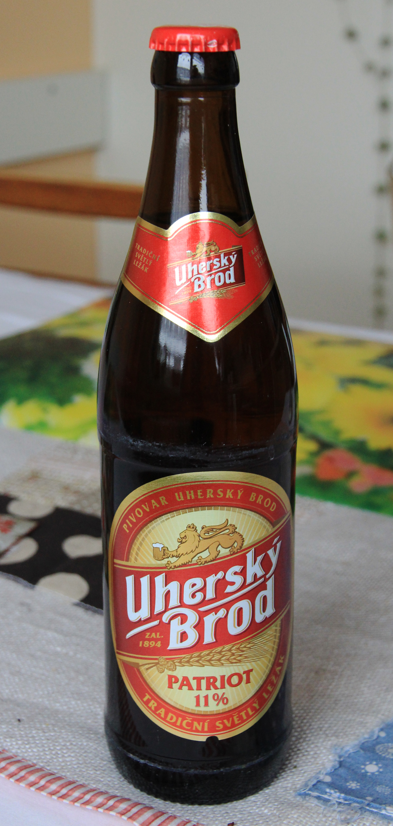 Bottle of Czech beer 11° Patriot from brewery in Uherský Brod, Czech Republic